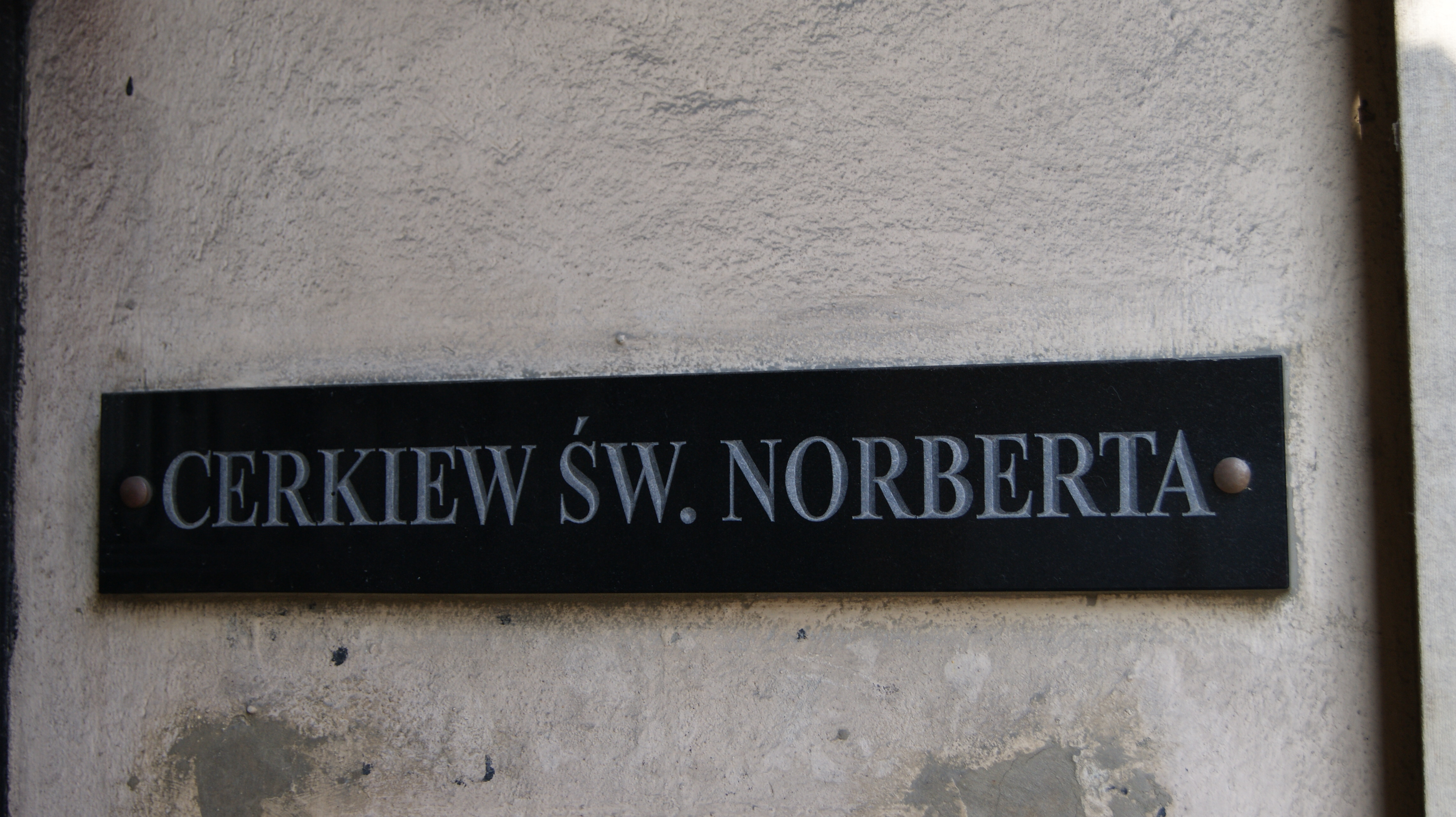 St. Norbert Greek Catholic Church, 11 Wislna street, Krakow,Poland